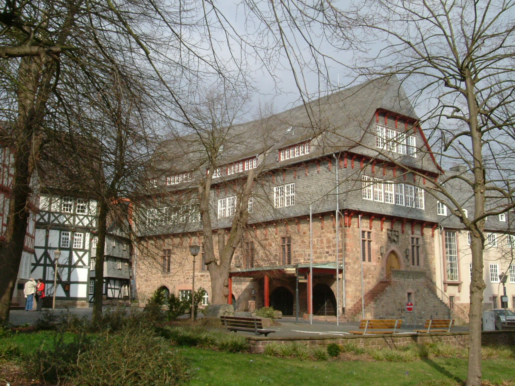 Fritzlar, Germany. Town hall, still without its turrets. Author: Peter Kaboldy, 03. 2007.